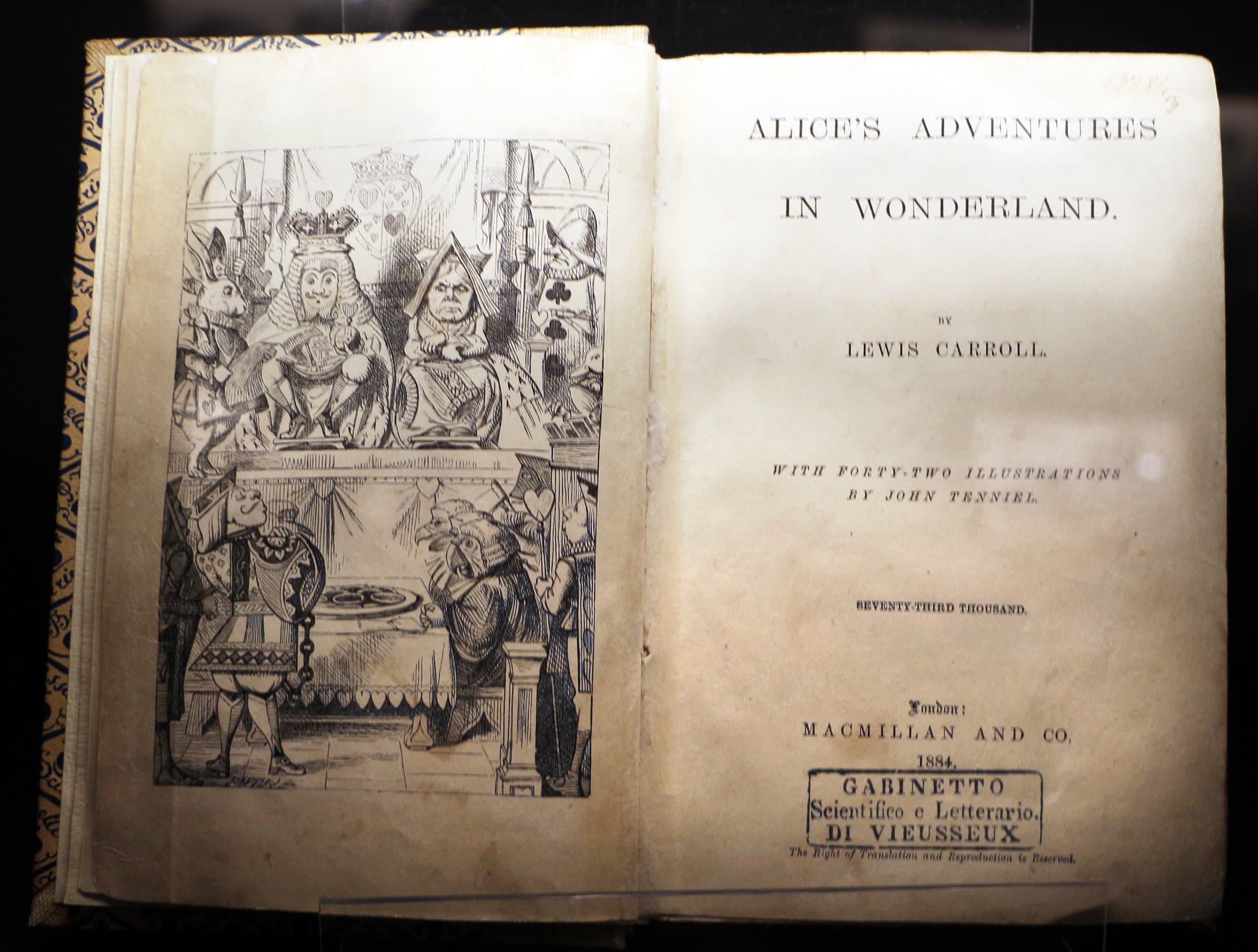 Books in Florence